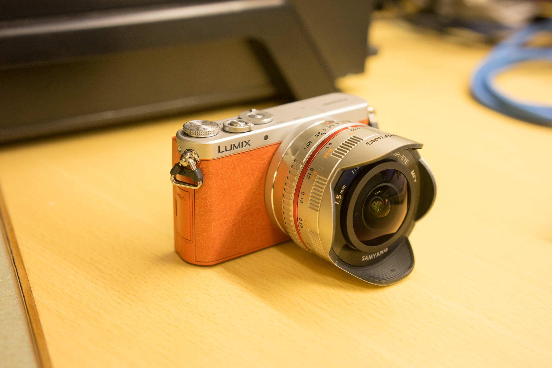 Samyang 7.5mm F3.5 Fisheye lens, on Panasonica DMC-GM1